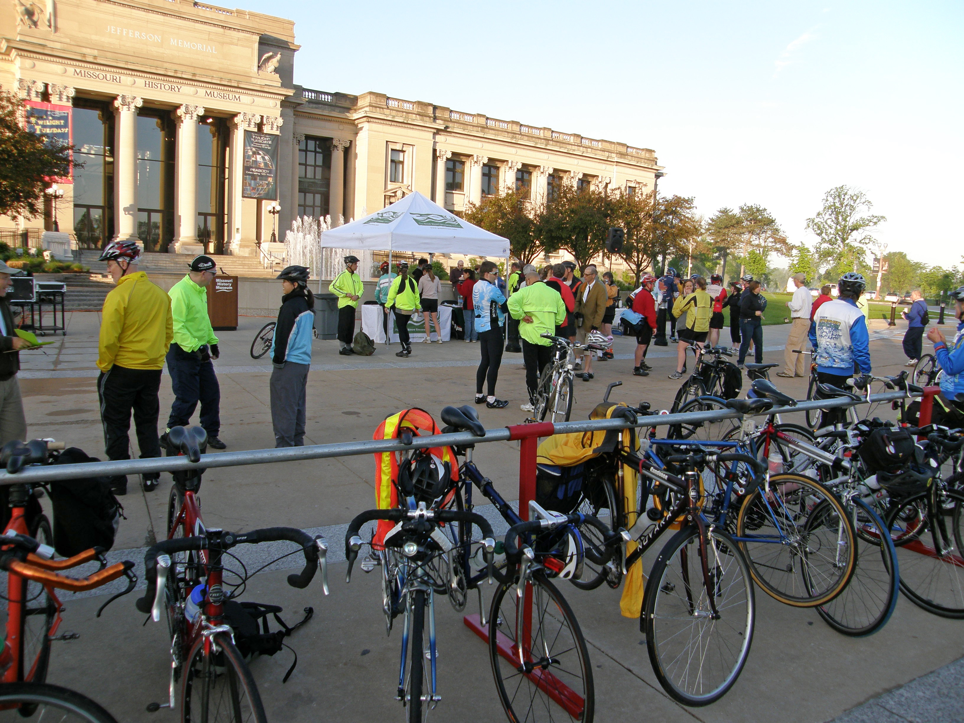 Trailnet bike event at Missouri History Museum National Bike to Work Day.